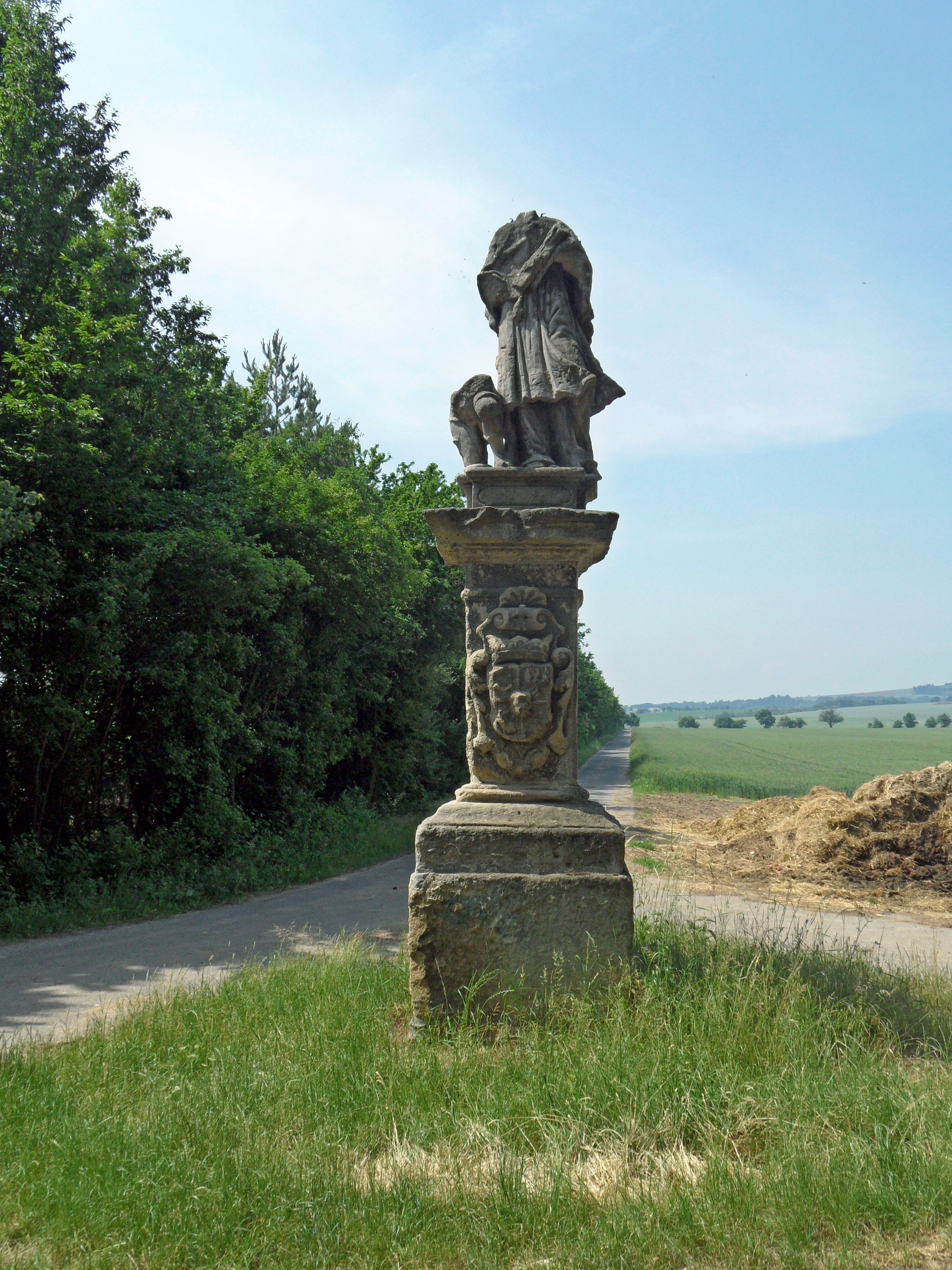 Statue of Saint John A. Often called John without Head: at Crossroad of Paths between Přítoky and Malý Kuklík hill. Kutná Hora District, the Czech Republic.